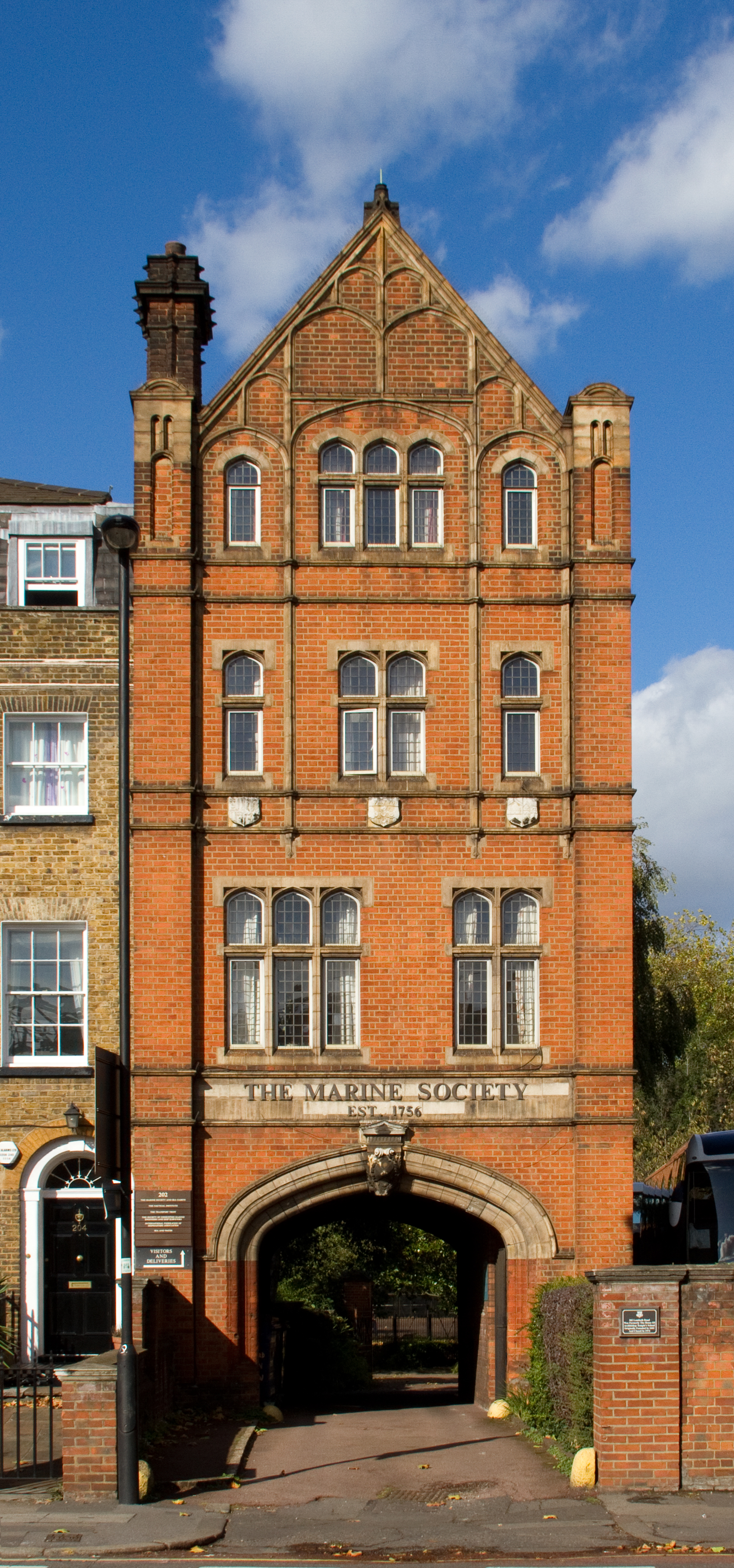 The Marine Society, 202 Lambeth Rd, London SE1 7JW